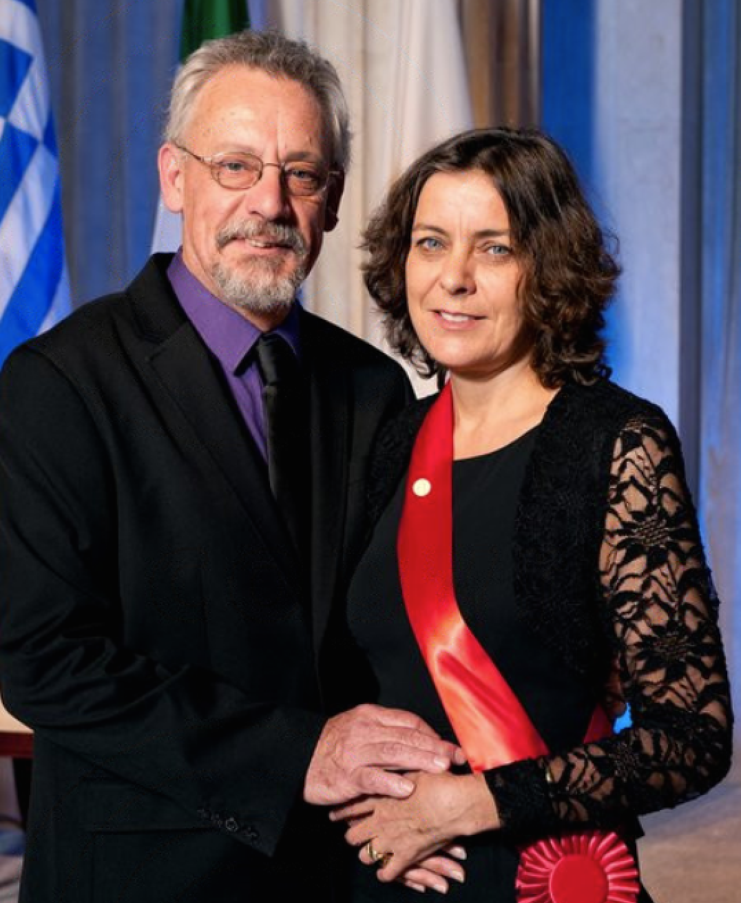 Banfield at the Franklin Award Ceremony with her husband Peregrin (Perry) Smith.